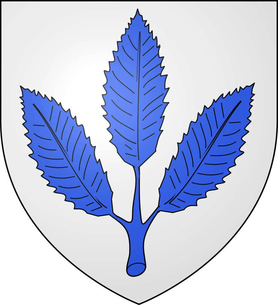 Blasonnement : d'argent à la branche de châtaignier d'azur, chargée de trois feuilles de même.